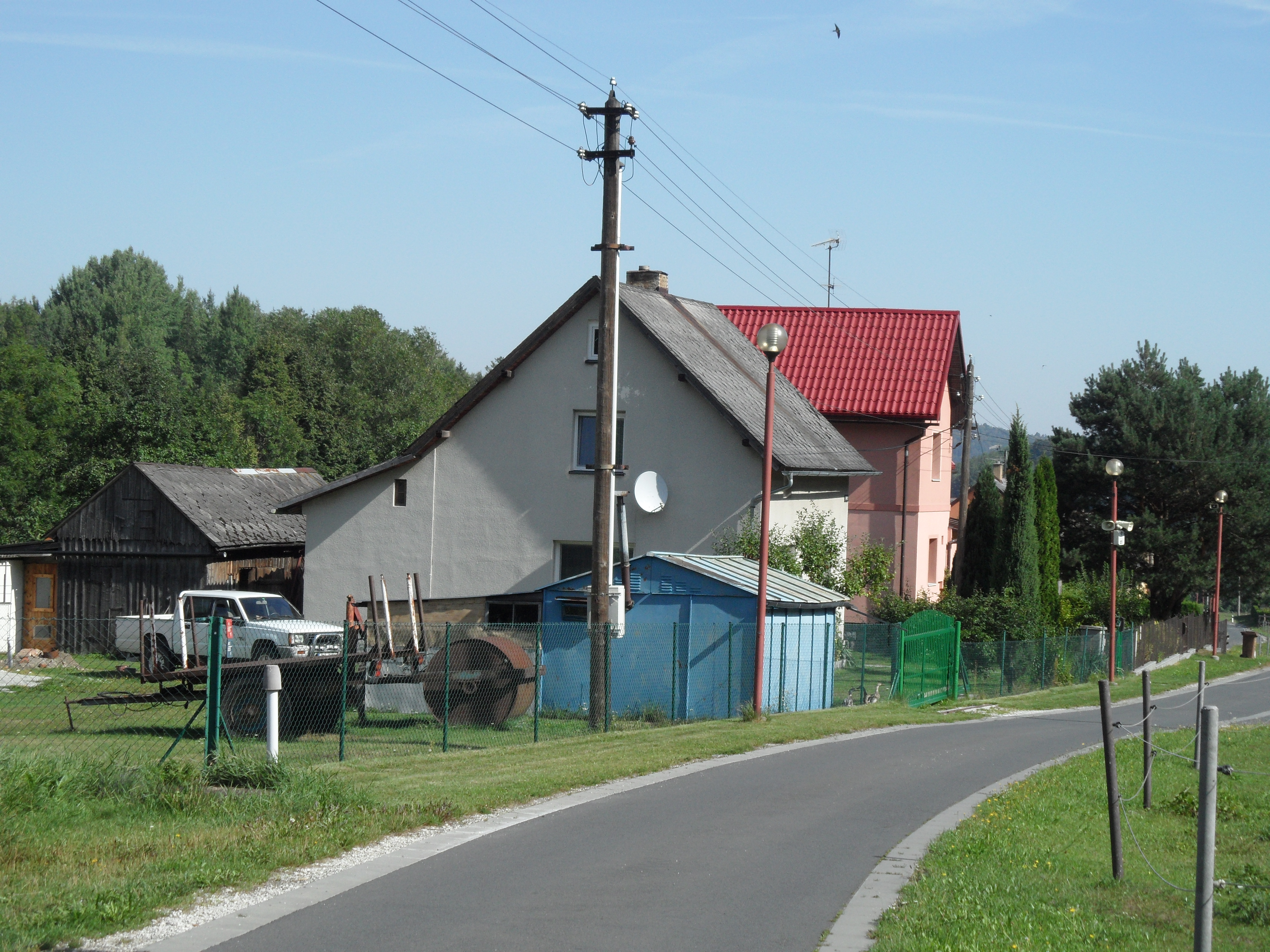 Polka_(Vápenná) F. House near Very Narrow Road (The Only One). Jeseník District, the Czech Republic.